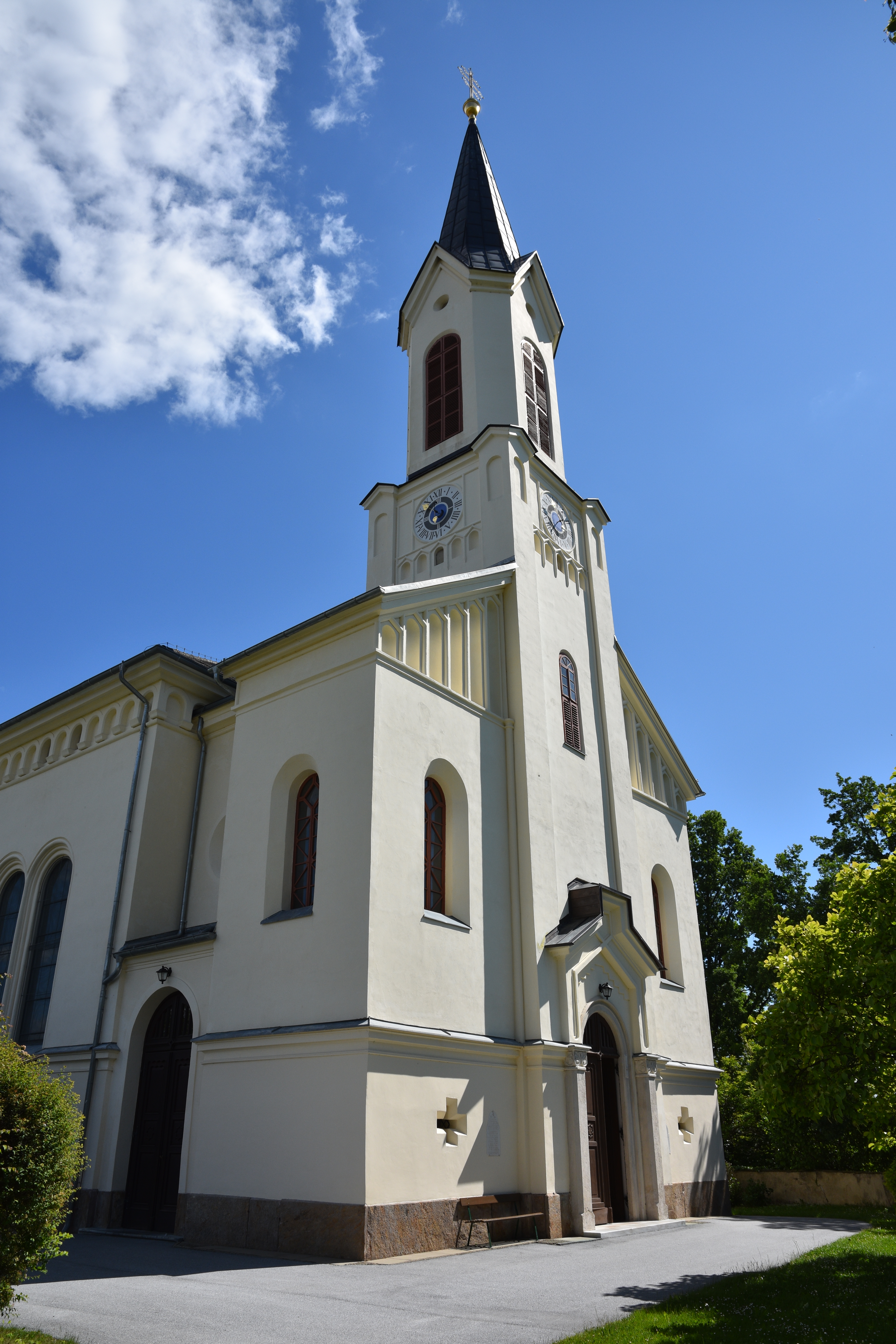 Church Kath. Pfarrkirche Sankt Johann-Köppling